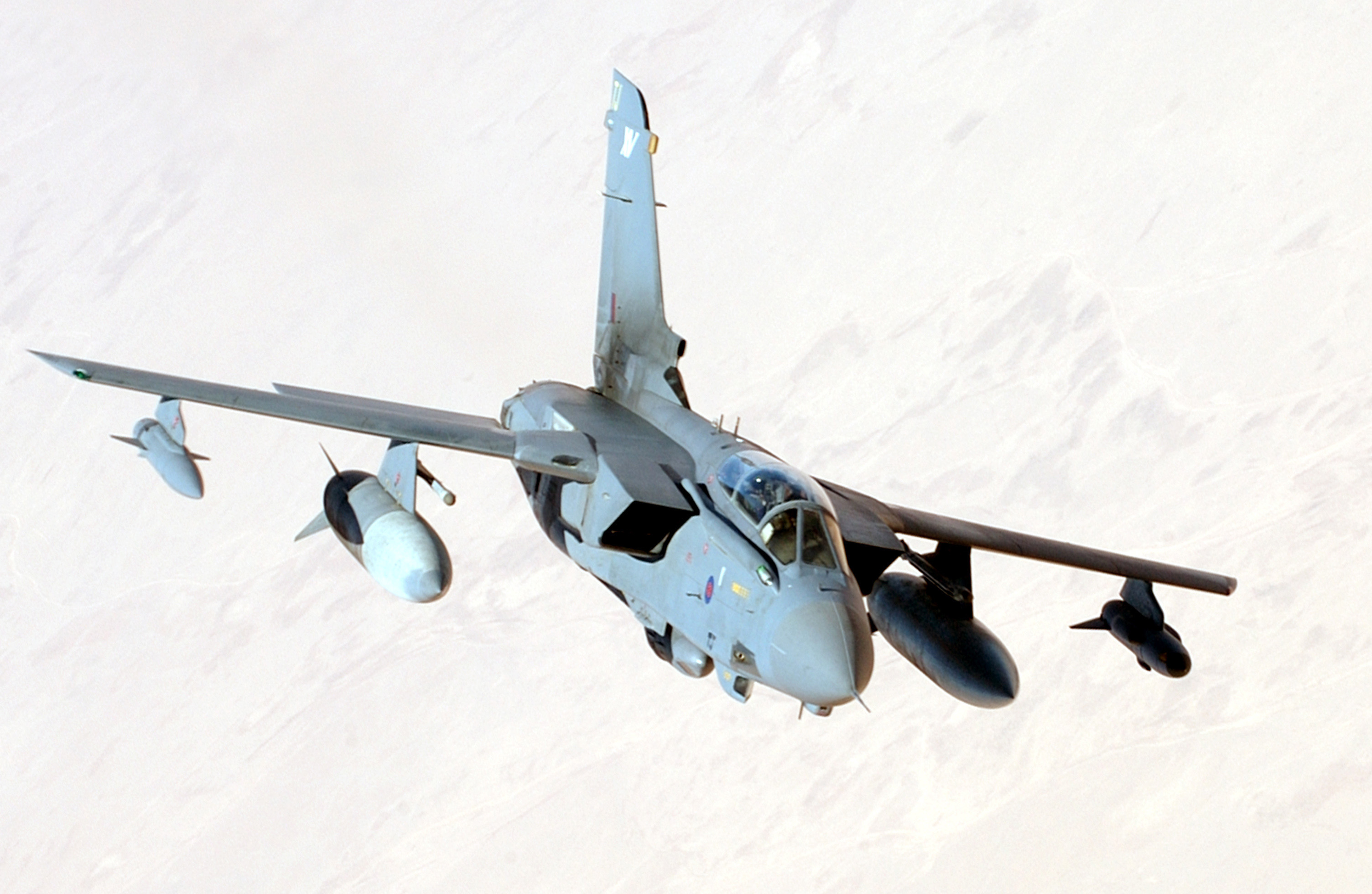 An Royal Air Force Panavia Tornado GR4 fighter, No. XV (Reserve) Squadron, based at RAF Lossiemouth (Scotland, UK), over Iraq during a combat mission in support of Operation "Iraqi Freedom", on 16 August 2004.